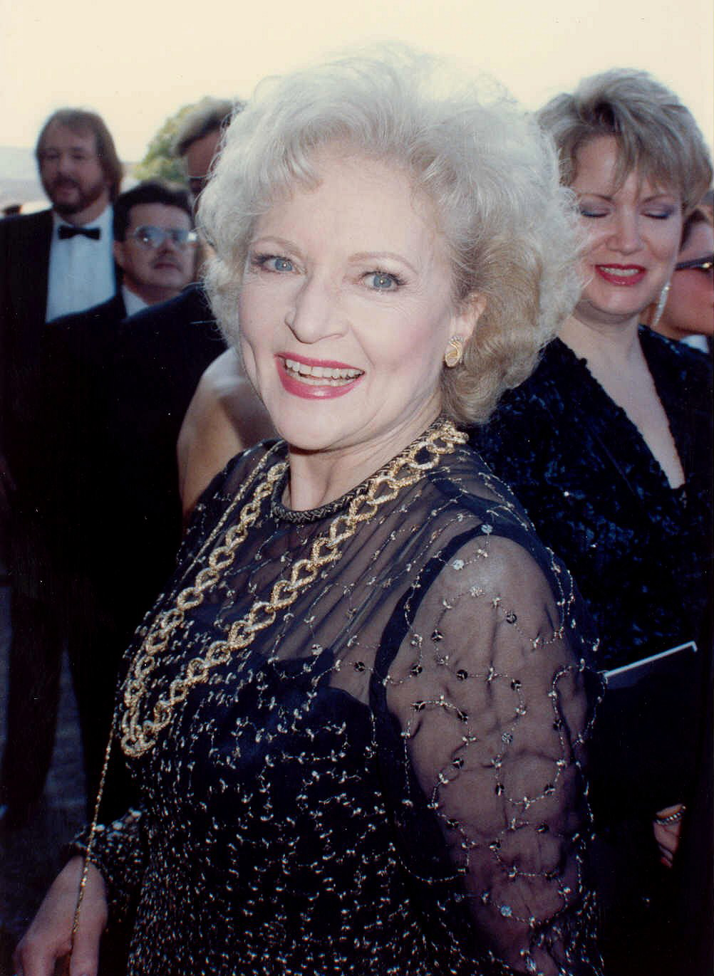 Photo of actress Betty White at the 41st Emmy Awards